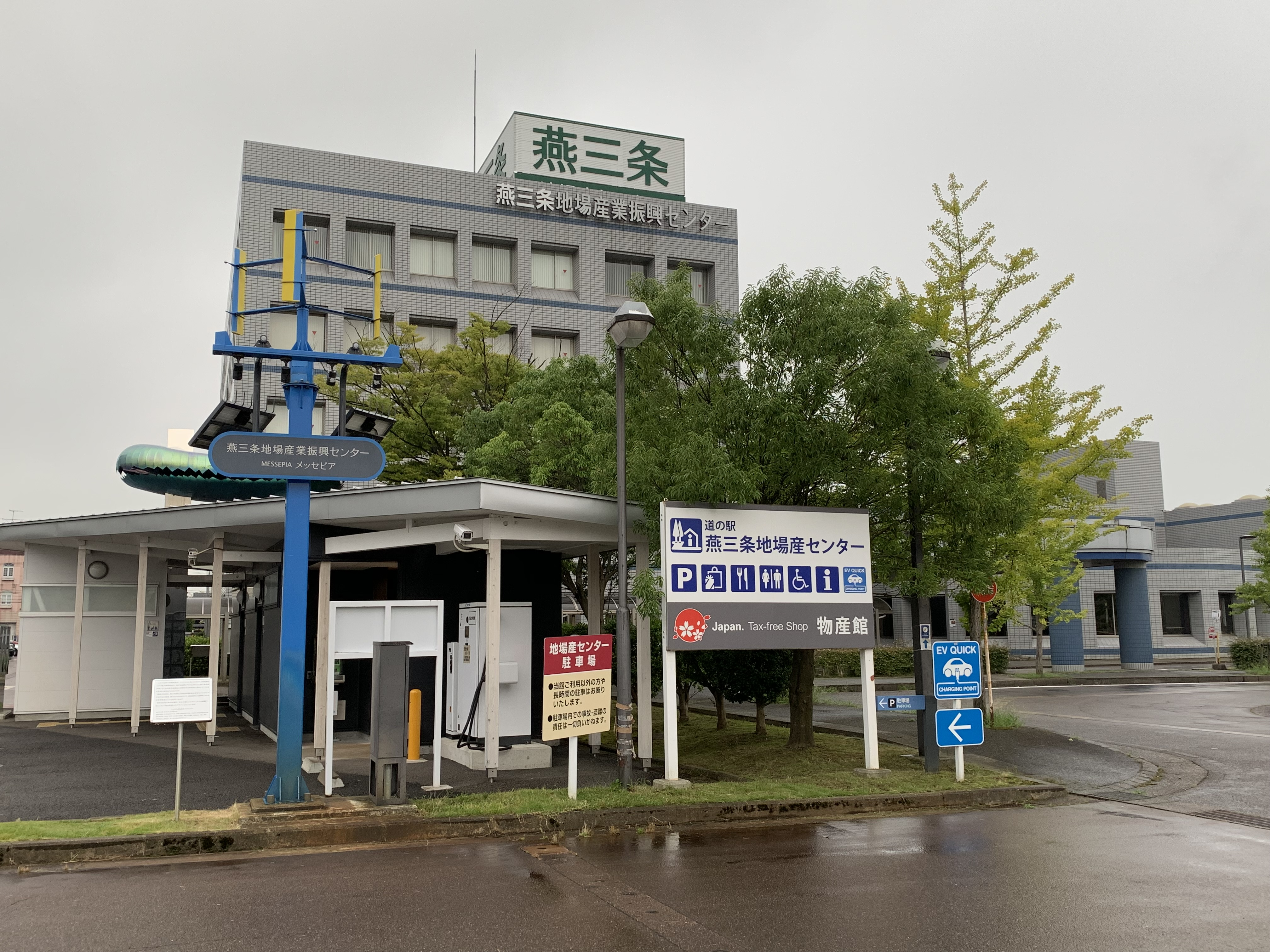 Tsubamesanjo Jibasan Center, Roadside Station, Niigata, Japan. Took photo in August 2019.